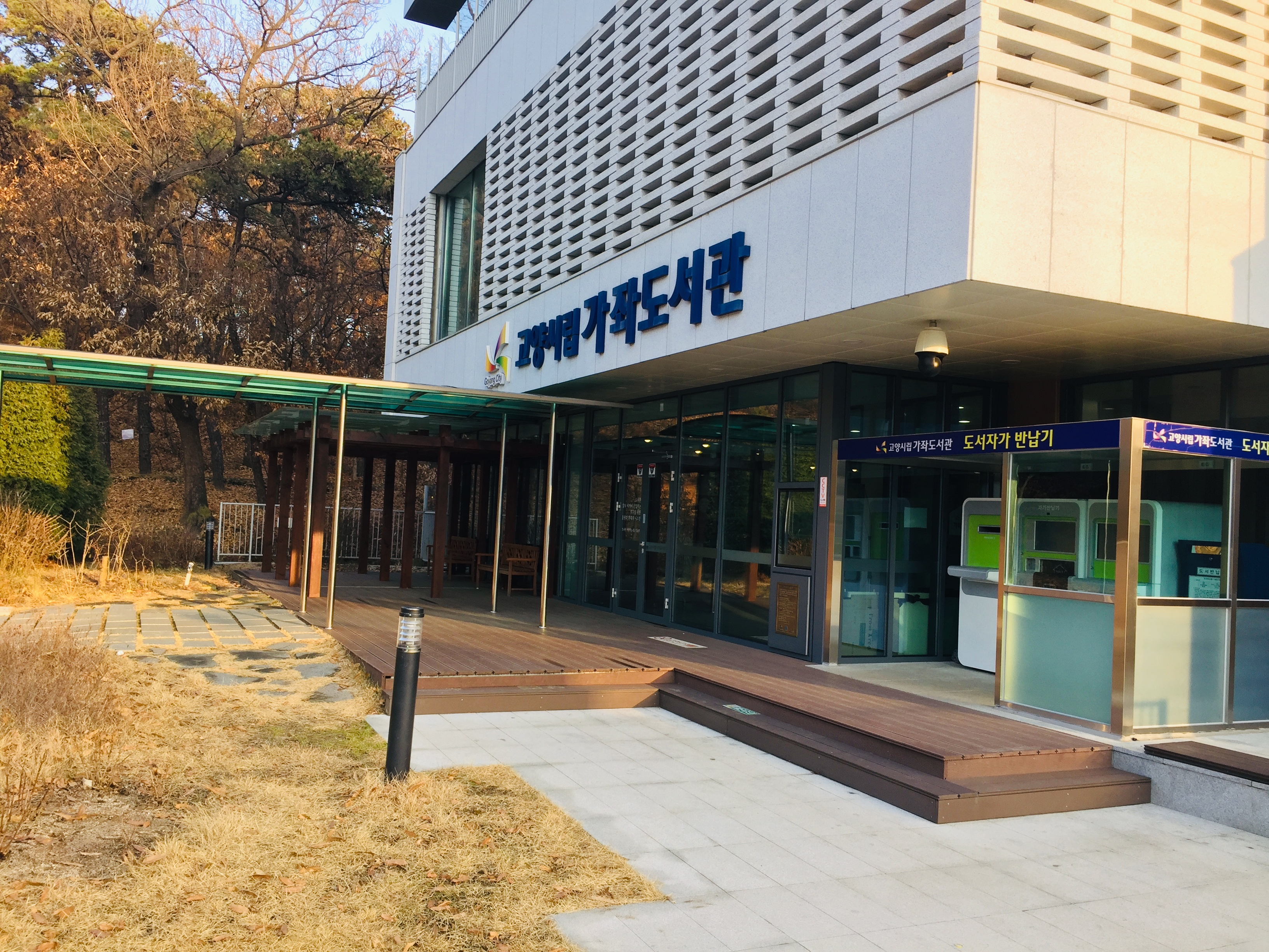 Gajwa library entry